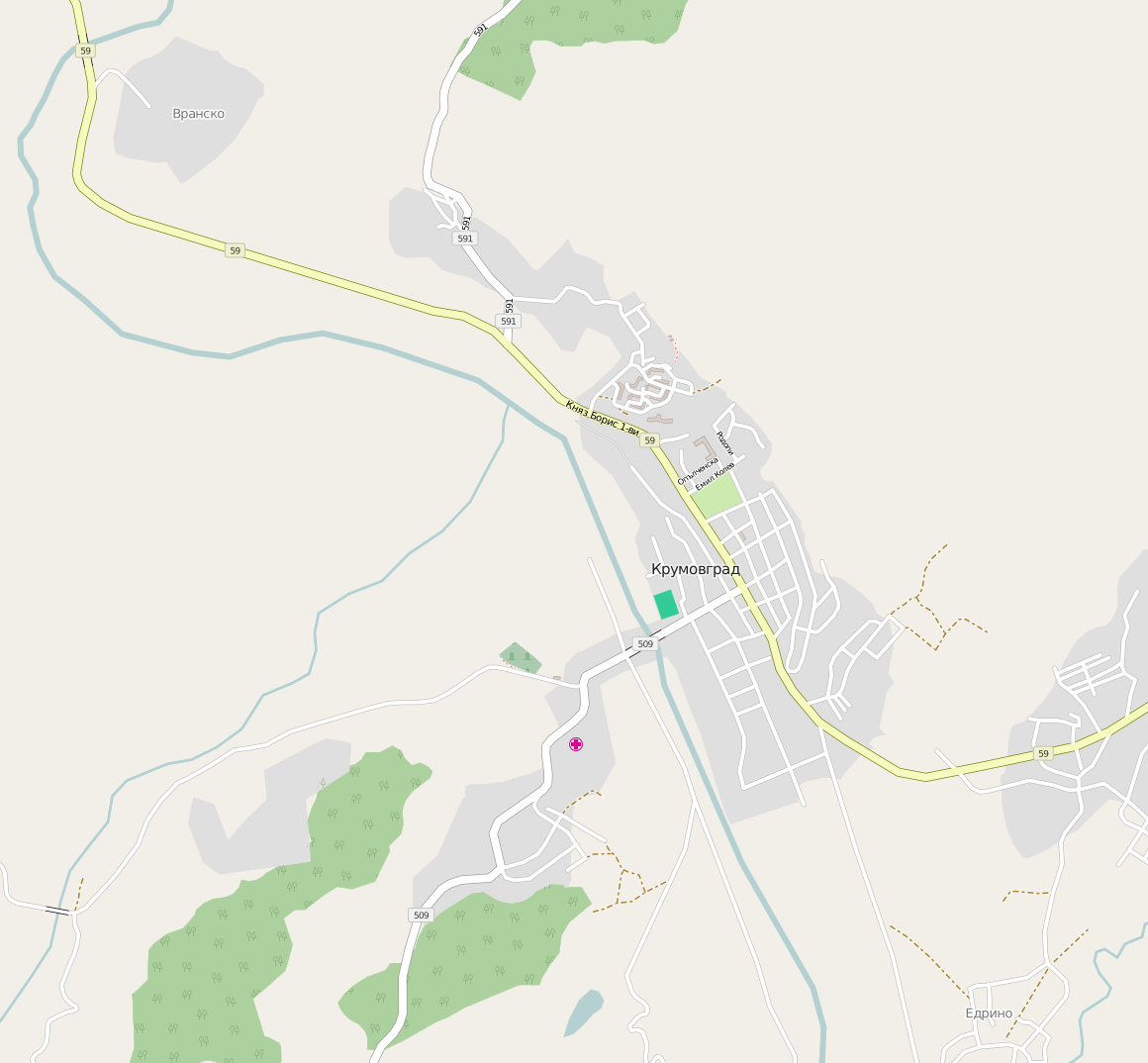 OpenStreetMap - Map of Krumovgrad